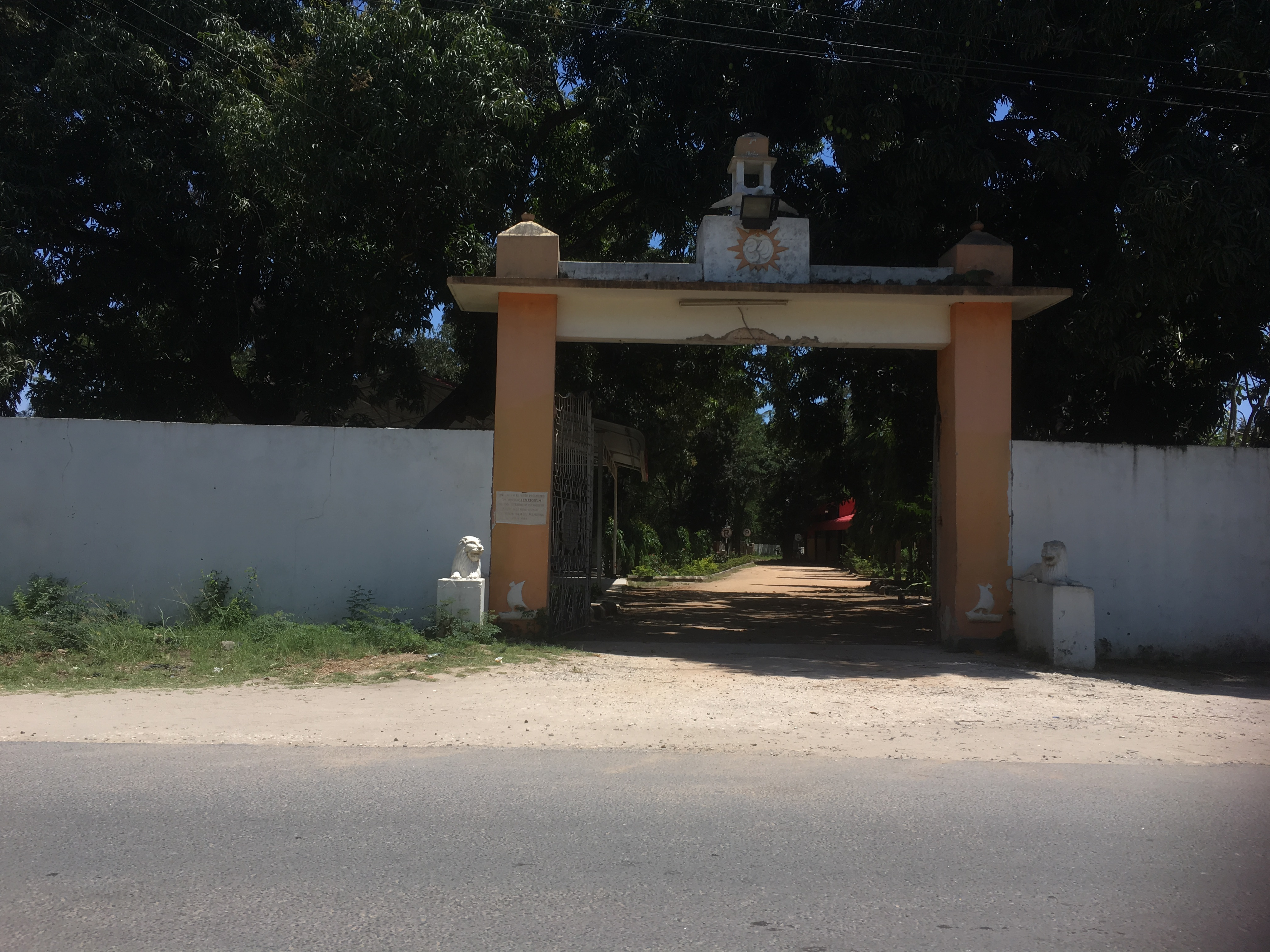 Hindu Crematorium at Kijitonyama in Dar es Salaam.